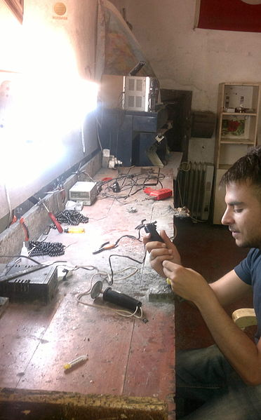 A factory plant for Oltu stone (Turkish: Oltu taşı), aka black amber, is a kind of jet found in the region around Oltu town within Erzurum Province, eastern Turkey. The organic substance is used as semi-precious gemstone in manufacturing jewellery.